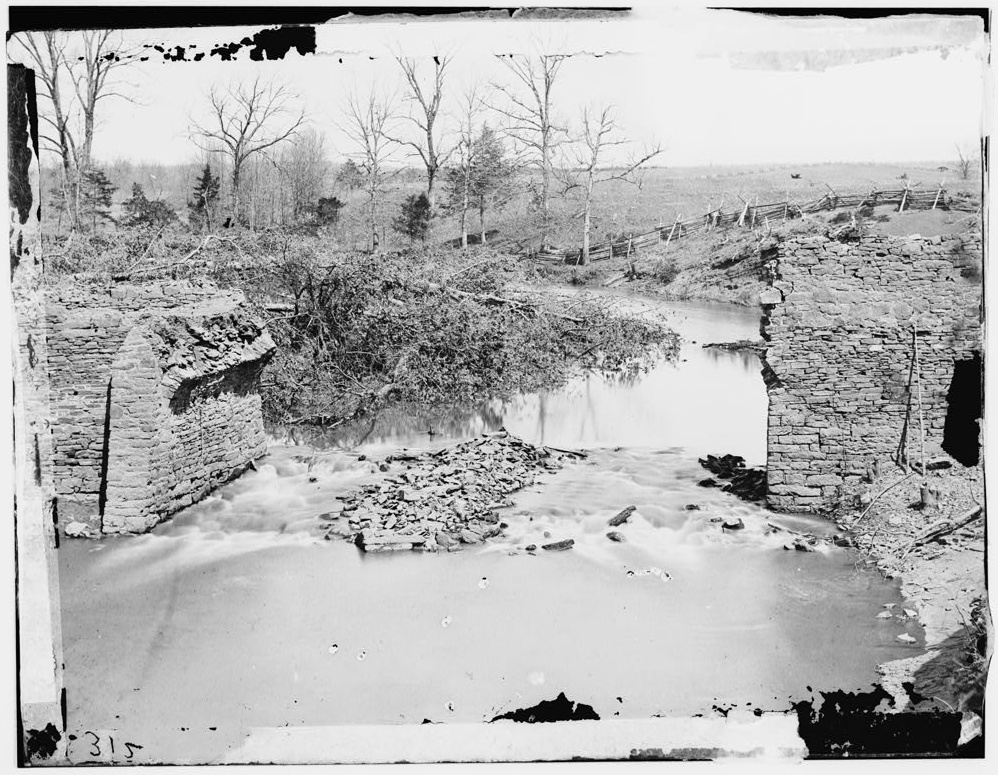 Summary TITLE: Bull Run, Virginia. Ruins of stone bridge CALL NUMBER: LC-B811- 312[P&P] REPRODUCTION NUMBER: LC-DIG-cwpb-00953 (digital file from original neg. of left half) LC-DIG-cwpb-00952 (digital file from original neg. of right half) No known restrictions on publication. MEDIUM: 1 negative (2 plates) : glass, stereograph, wet collodion. CREATED/PUBLISHED: 1862 Mar. CREATOR: Barnard, George N., 1819-1902, photographer. NOTES: Photographer name from negative sleeve: G. N. Barnard. Caption from negative sleeve: Ruins of Stone Bridge, Bull Run. March 1862.